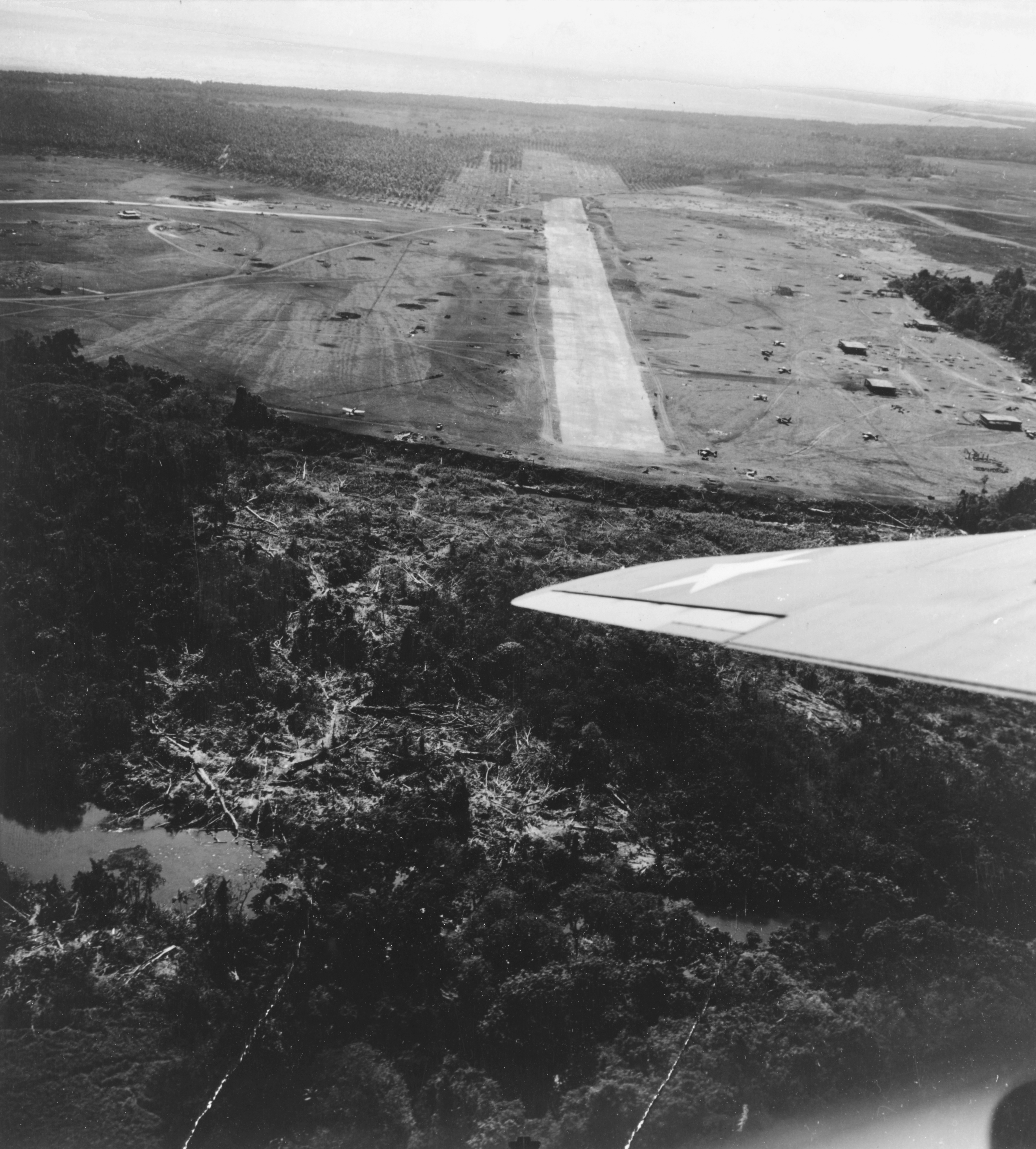 Aerial view of Henderson Field, Guadalcanal, on 22 August 1942, looking south-east. The buildings to south of runway "were intended for shops. They have 7/8 inch steel roofs." The aircaft visible on the field are Grumman F4F-4 Wildcats.